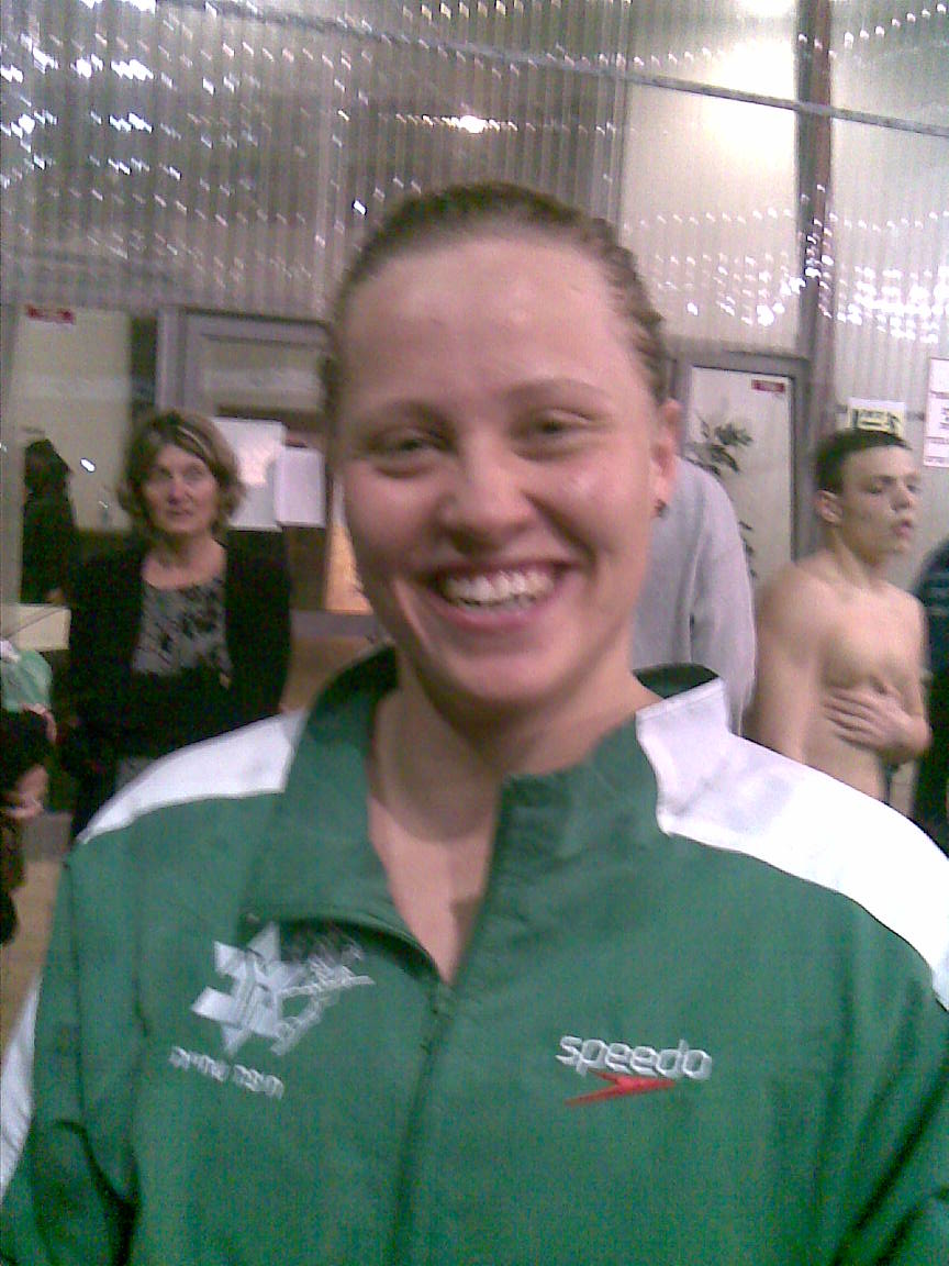 Anna Volchkov, Israeli swimming championship (25 m'), Ashdot Ya'akov Meuhad, February 2012